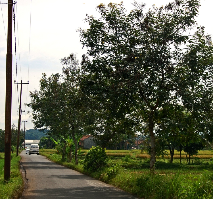 Habits of young Senna siamea; planted along roadside in Bogor, West Java, Indonesia.